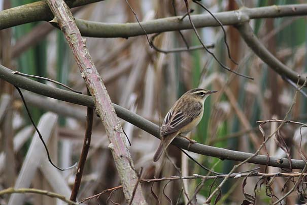 A Sedge Warbler near Rutland Water, Rutland, England.